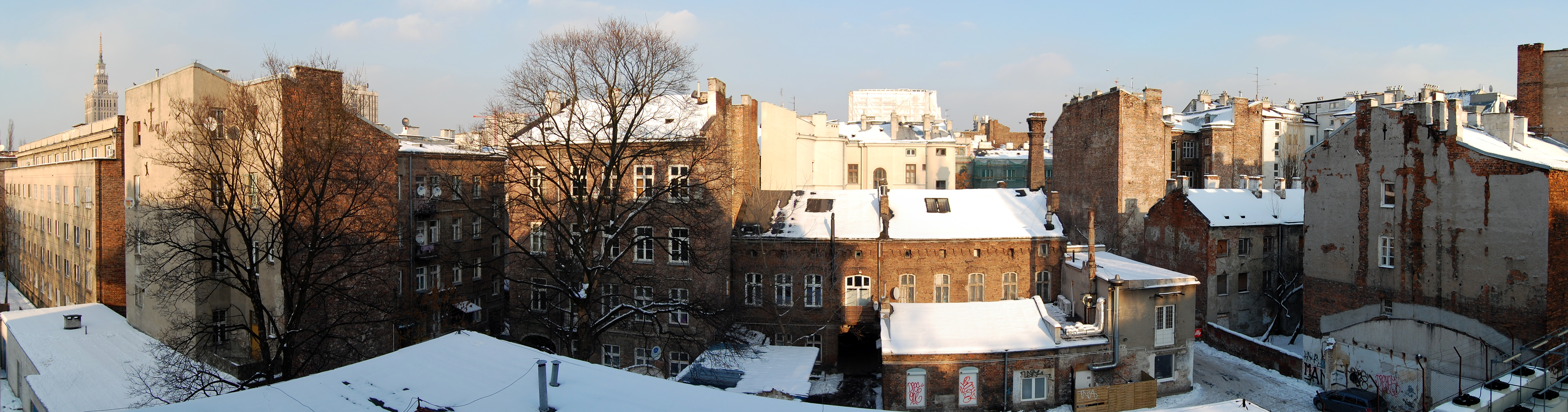 Tentement houses in Warsaw, Poland.